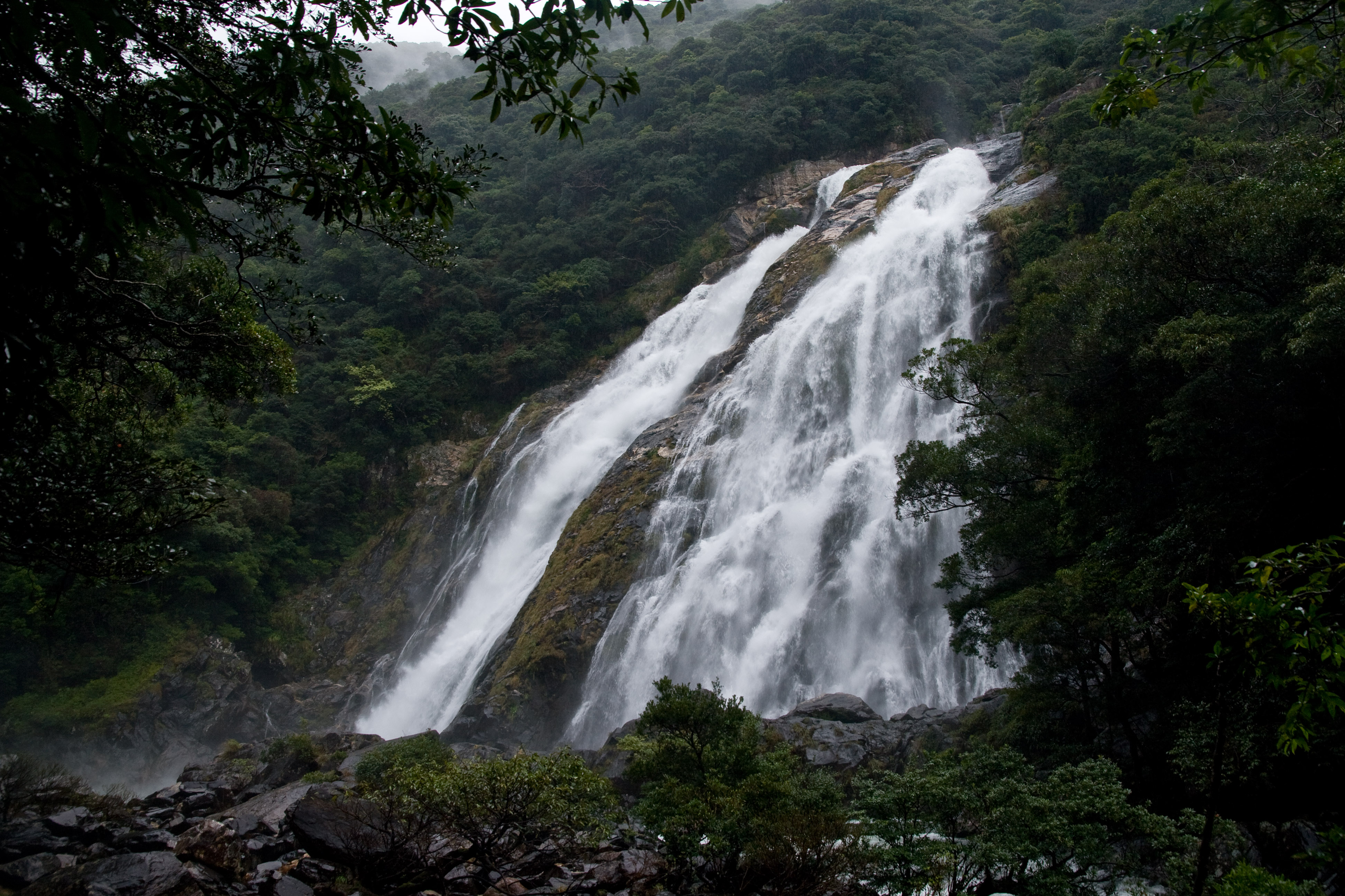 Ooko Falls in Yakushima, Kagoshima Pref., Japan.